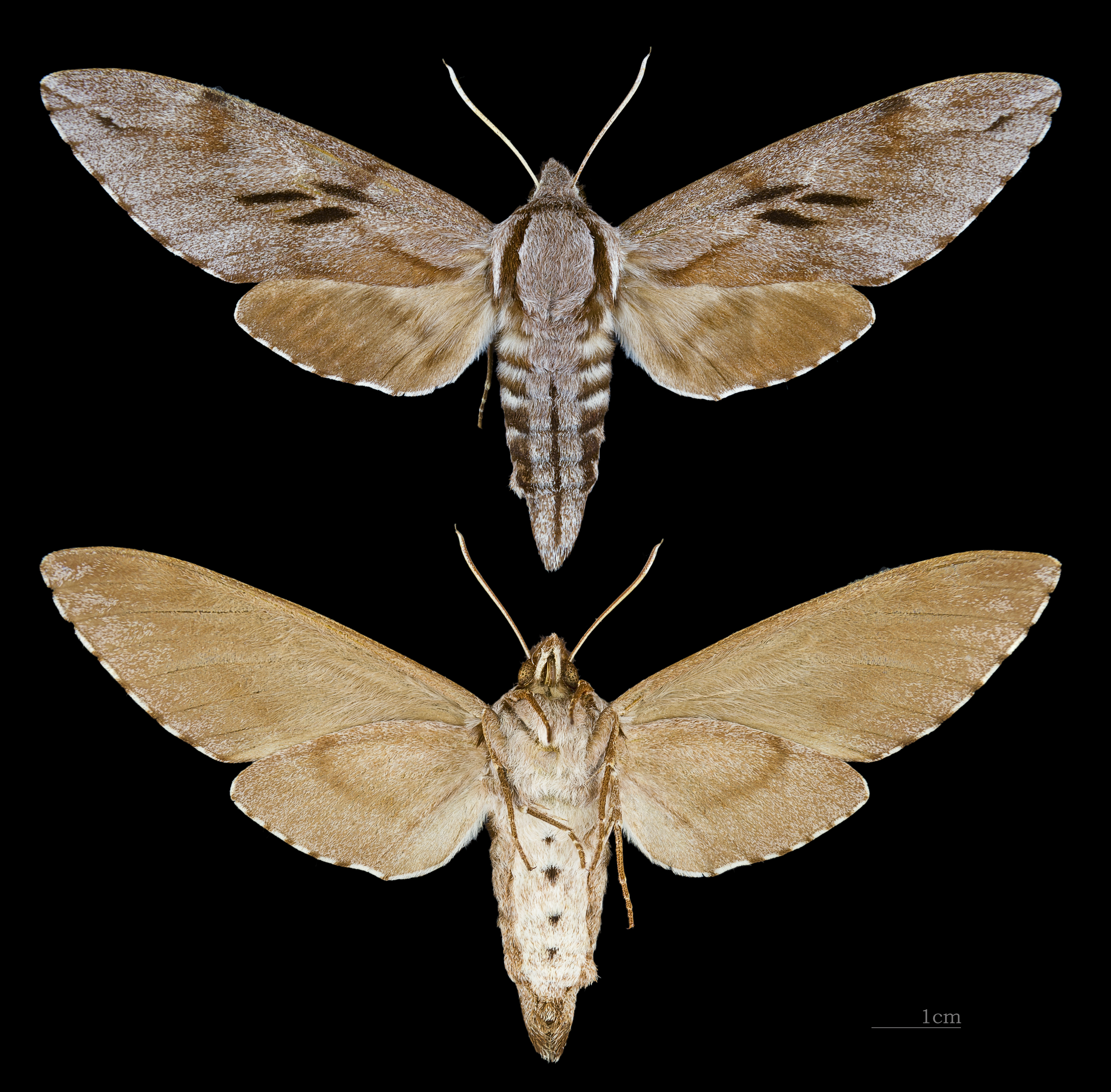 Hawk-moth - Two views of same specimen